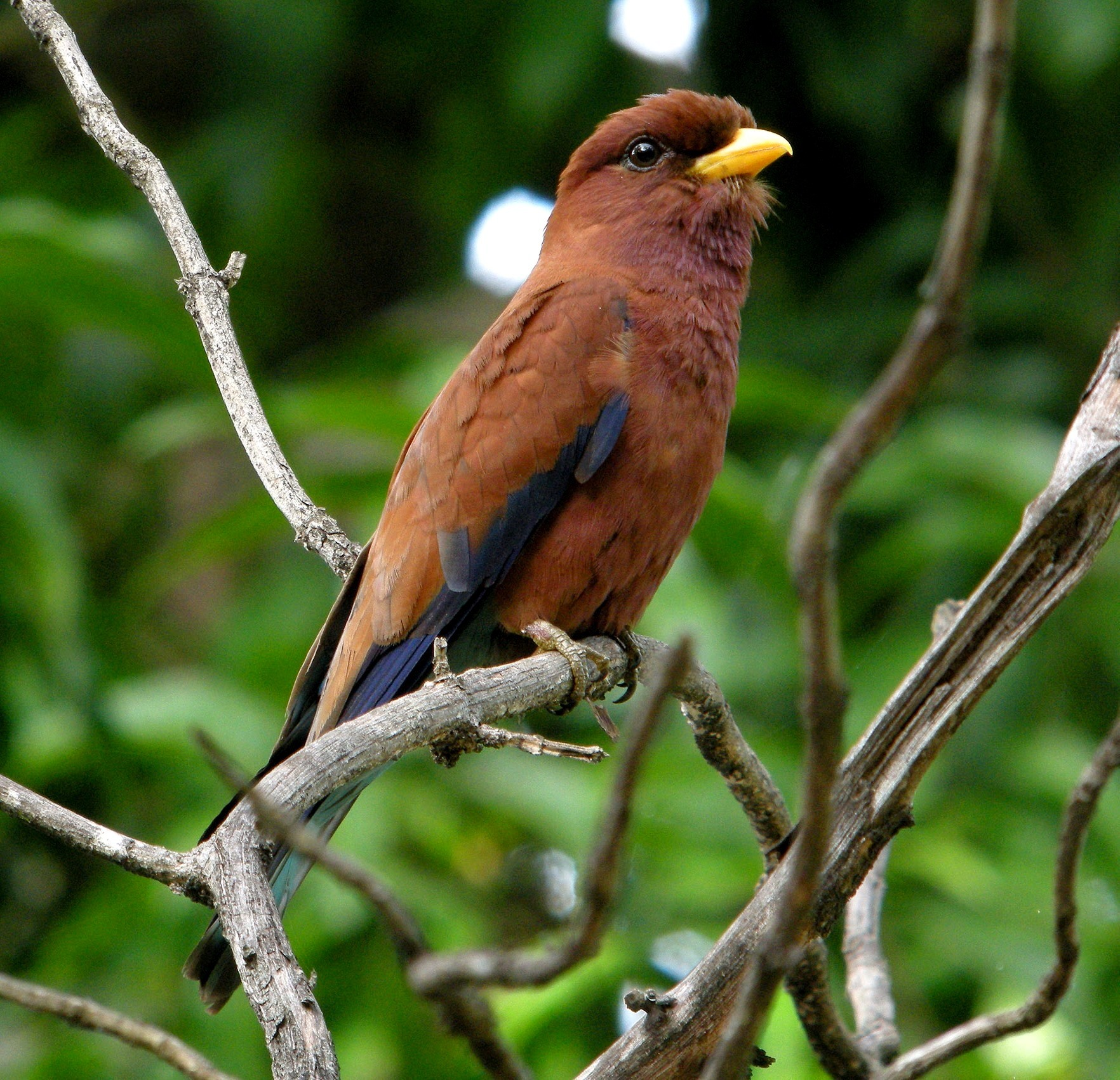 Broad-billed roller (Eurystomus glaucurus glaucurus) at Ankarafantsika, Madagascar. One of the commoner inhabitants of the forests of Madagascar, the Broad-billed roller is easily recognised by its typical series of loud calls. Swarowski 80 HD 30 X, Coolpix P5100 (Adapter DCB)